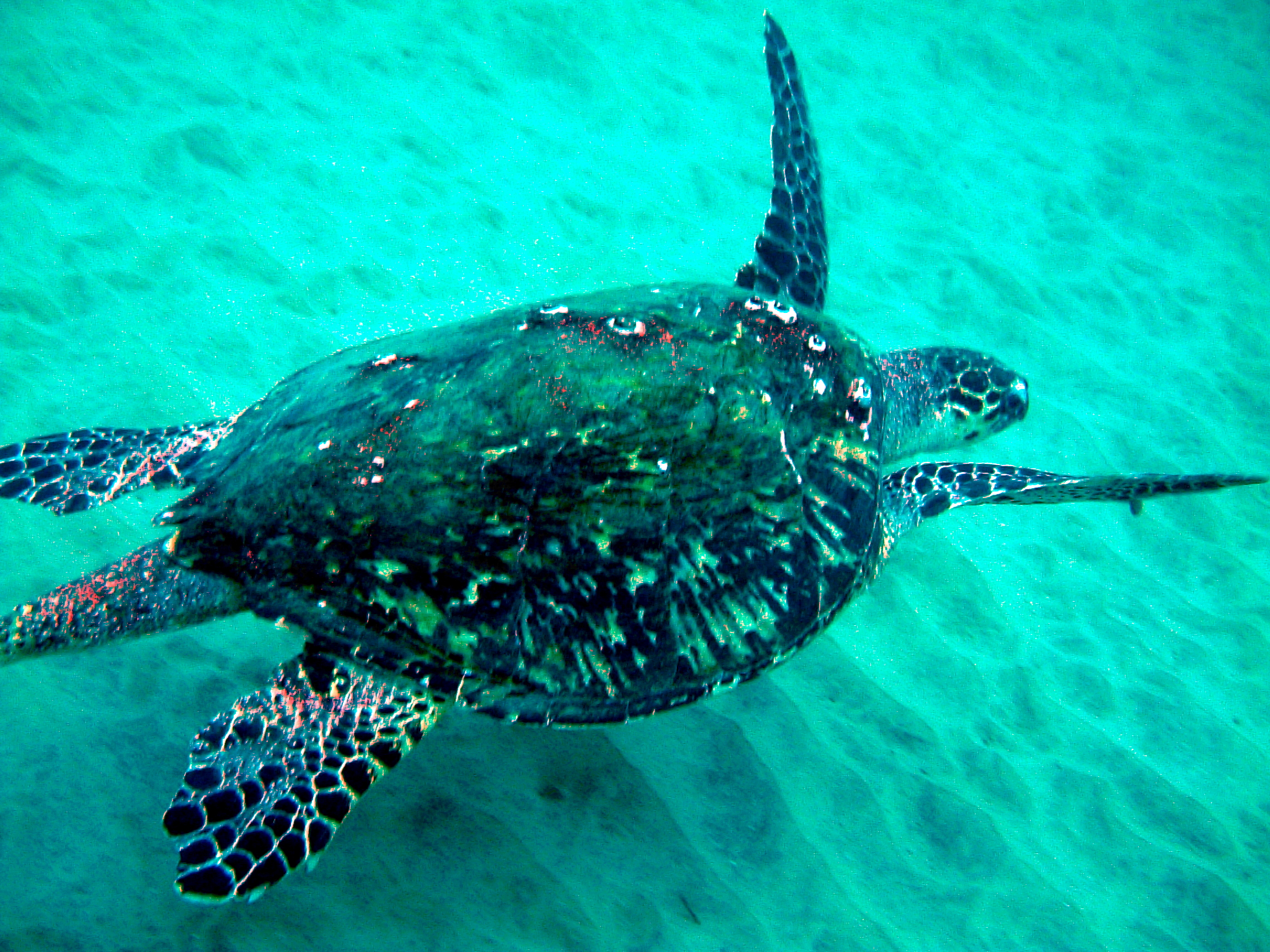 Hawksbill Turtle swimming